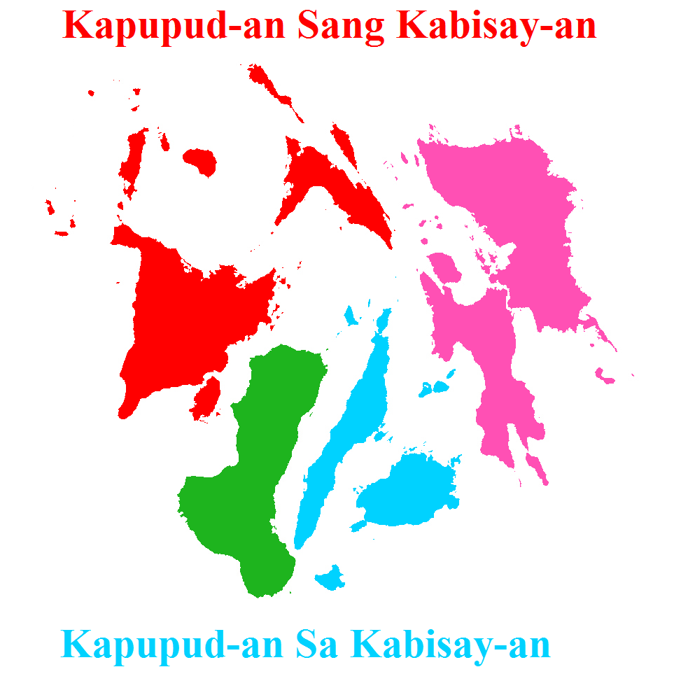 Map of the Archipelago of Visayas. The Regions: Western Visayas + Masbate and Romblon The Negros Island Region Central Visayas Eastern Visayas/The Samar-Leyte Archipelago